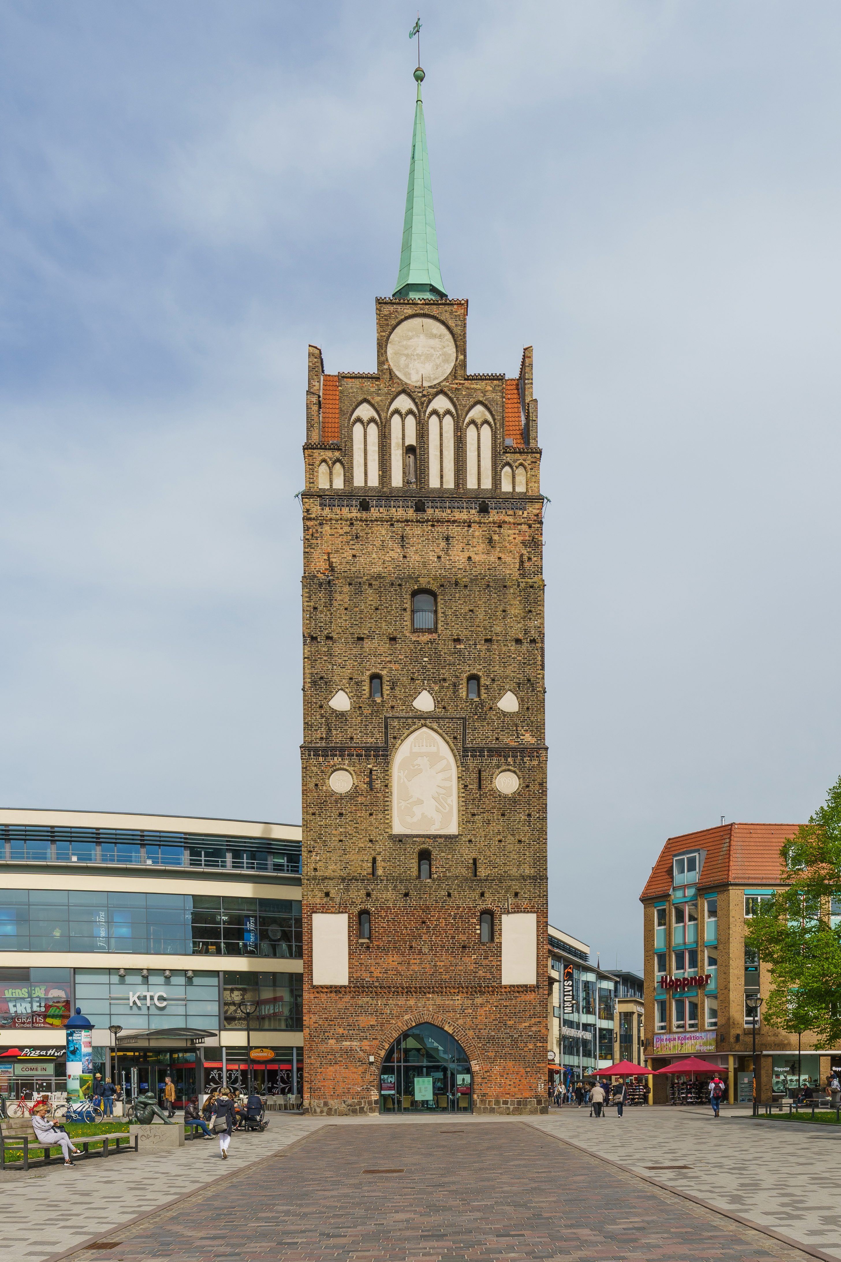 Tower of historical fortification in Rostock, Germany